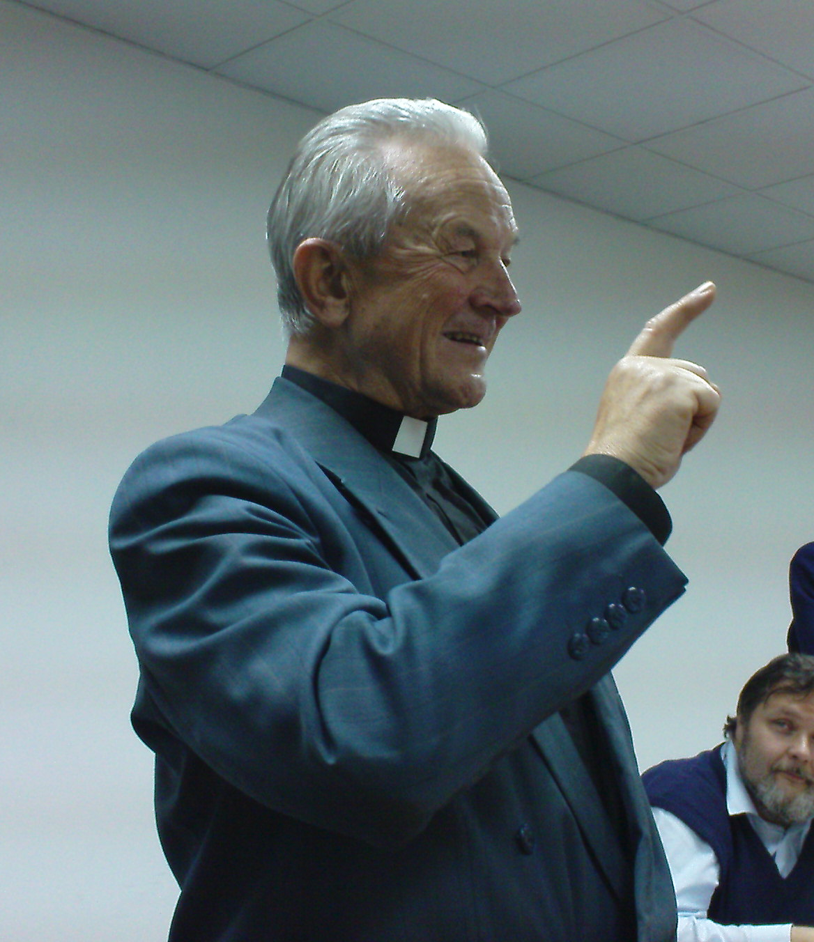 Prof. Václav Wolf during his lecture "Buddha or Christ?" arranged by the fellowship Lipový kříž (Linden Cross) at Nov 4, 2008 in Prague